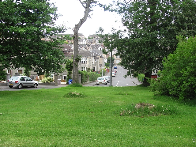 Dunkeld Avenue